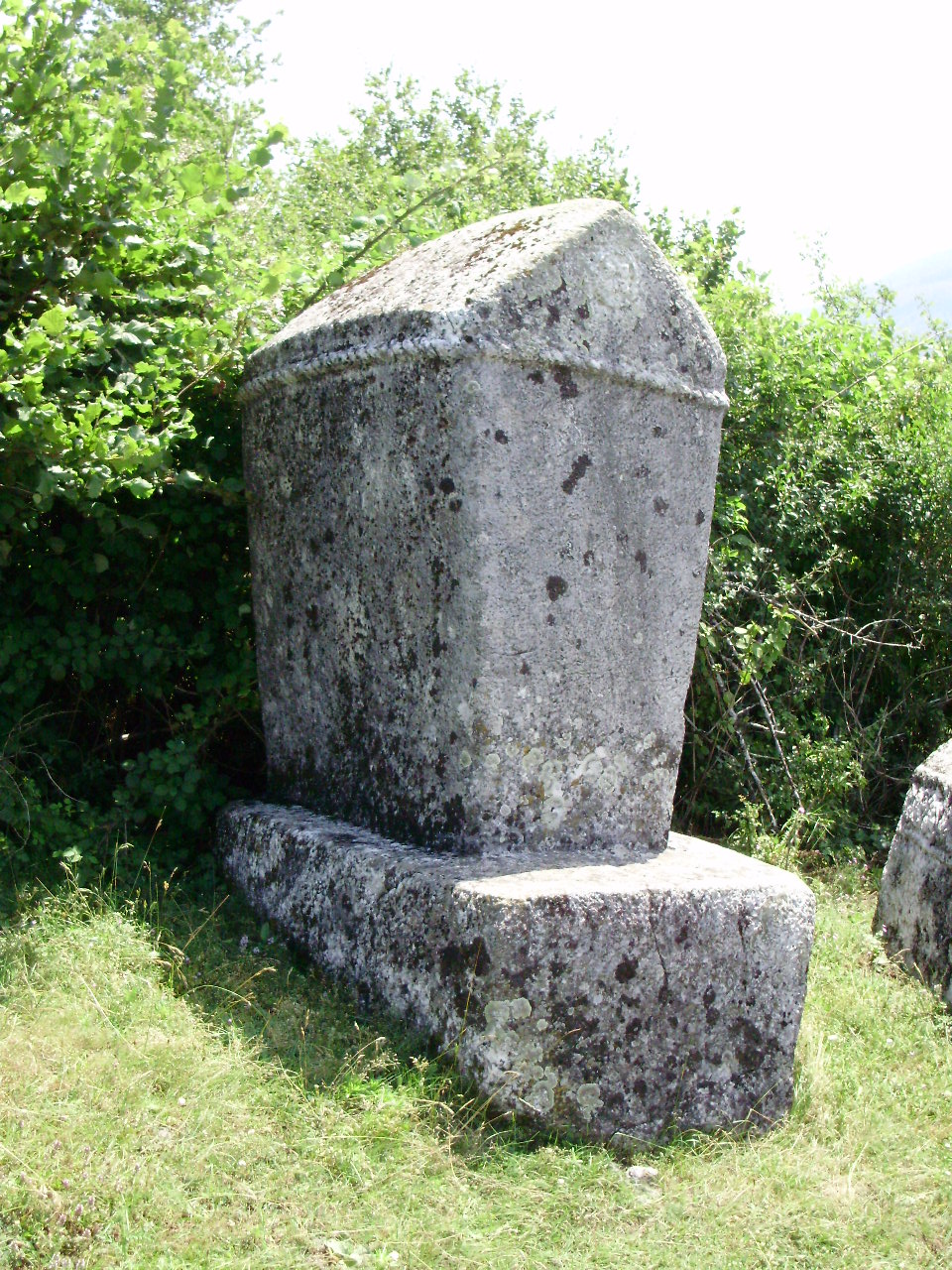 Medieval tombstone